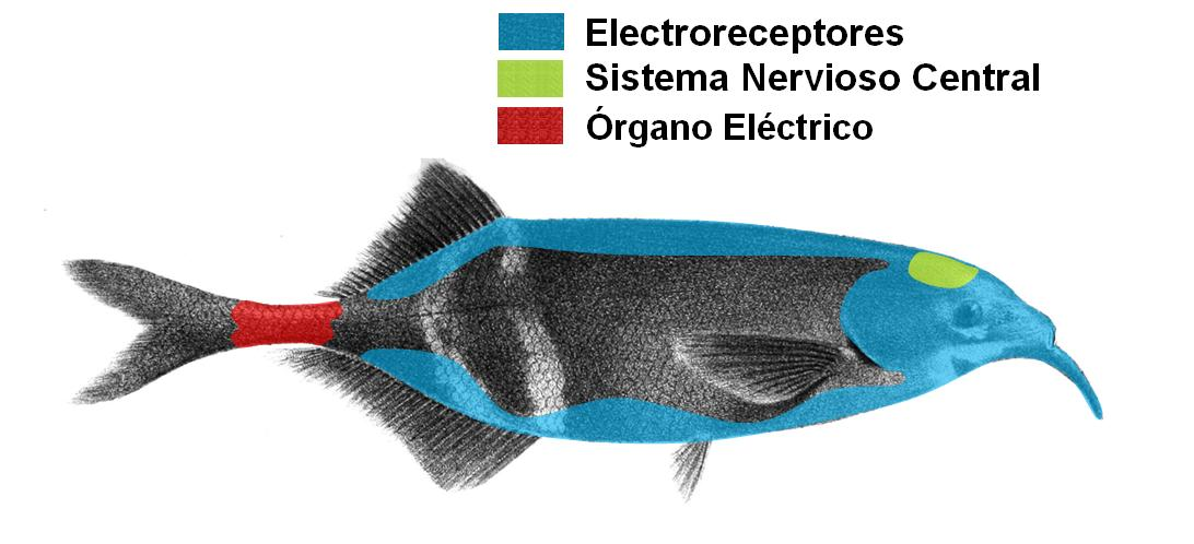 Peters' elephantnose fish